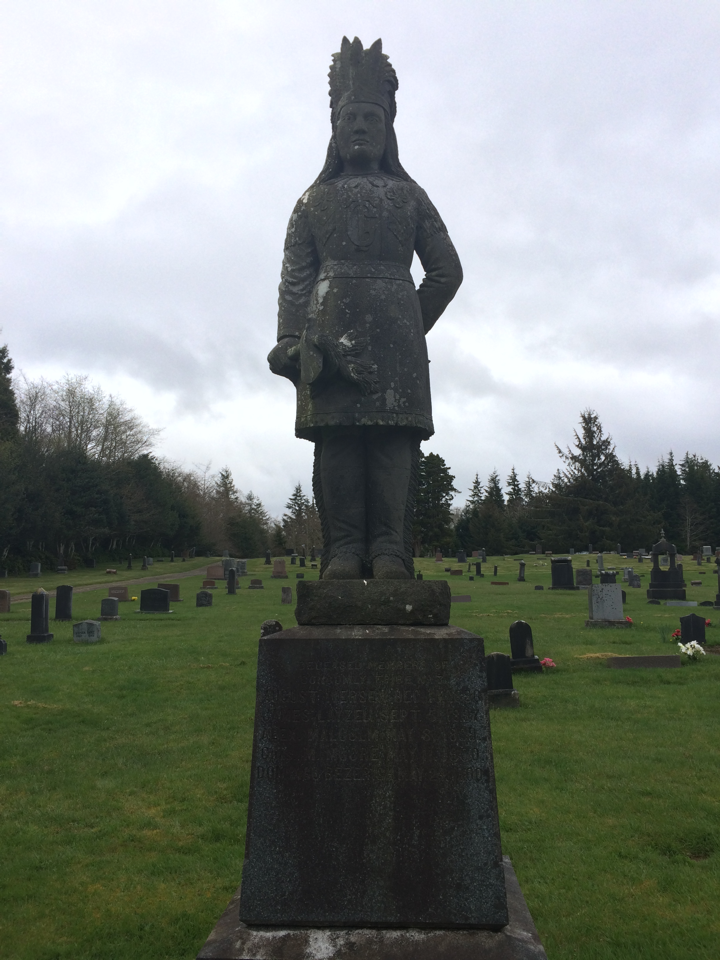 Statue/Grave Marker commemorating the Comcomly family.